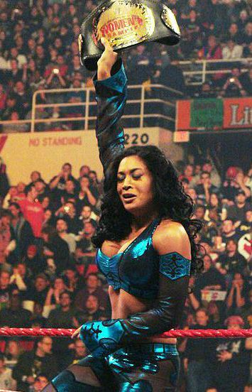 Melina Perez at the Royal Rumble